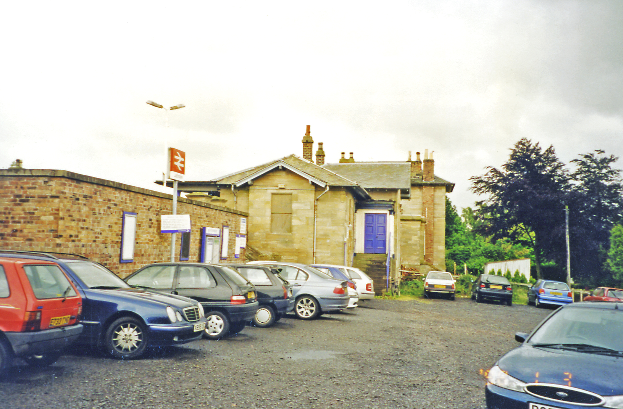 Ladybank station, exterior. View southward, towards Thornton Junction, Forth Bridge, Edinburgh, Glasgow: ex-NBR Edinburgh etc. - Dundee - Aberdeen main line, junction of lines to Newburgh and Perth, also formerly to Mawcarse. The line from Mawcarse was closed to Passengers from 5/6/50, to goods 9/10/67; local services to Newburgh ceased from 9/9/55 (goods 1/3/62), but since 6/10/75 - when the direct line through Kinross was supplanted by a Motorway (M9), the line has been used for Edinburgh - Perth services. [Is this correct?]